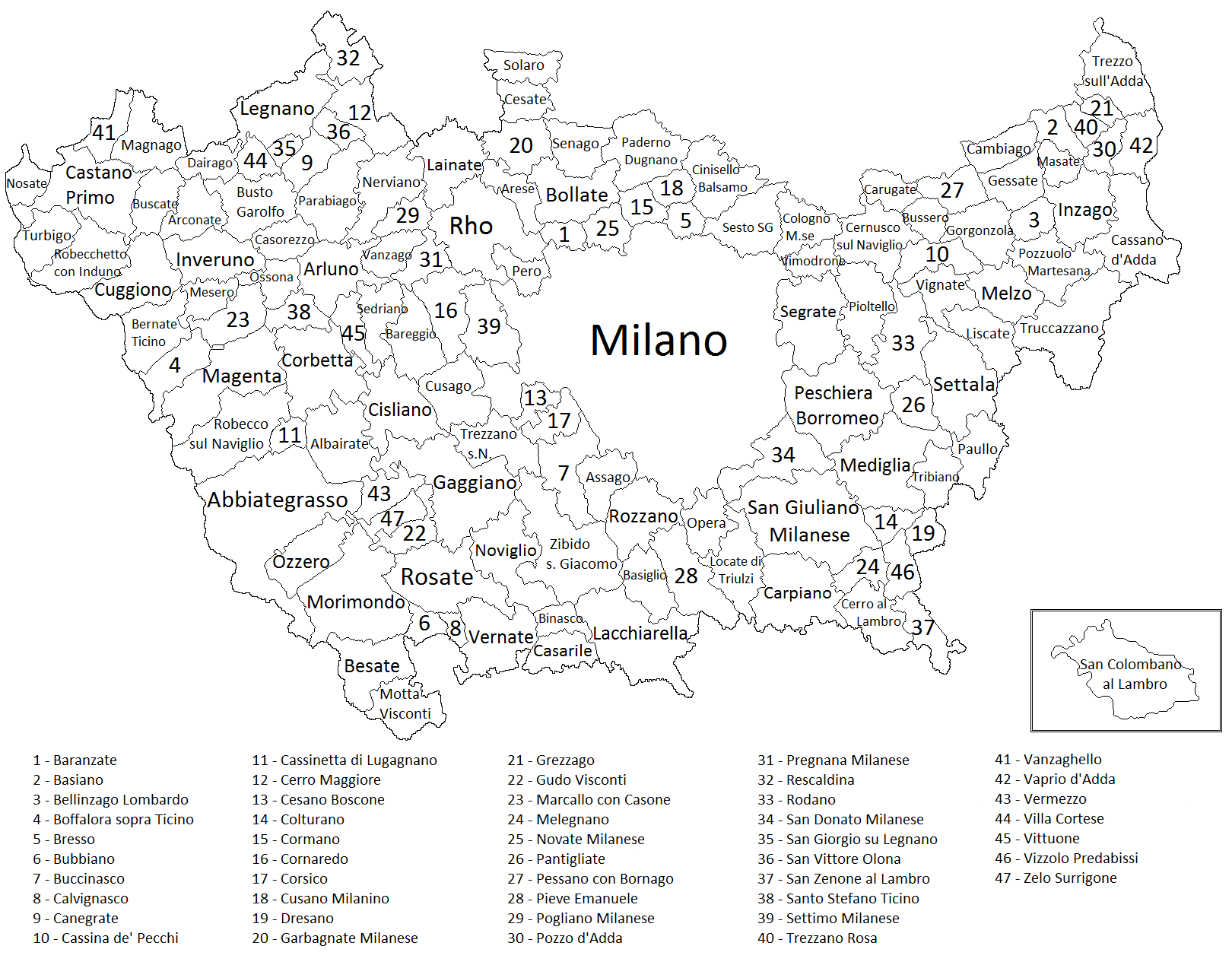 Province of Milan map with municipalities' borders.